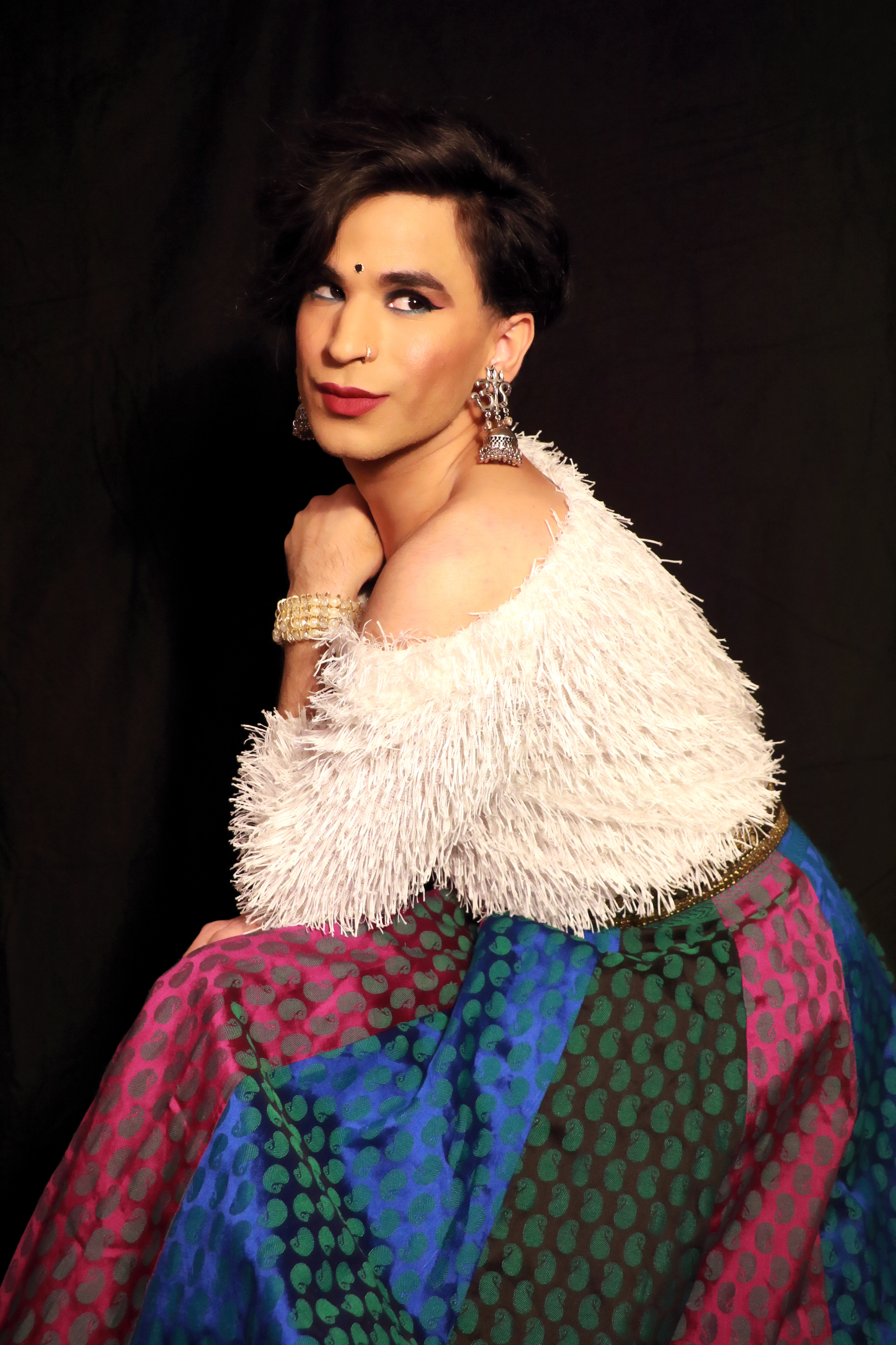 Portrait image of artist Shiva Raichandani